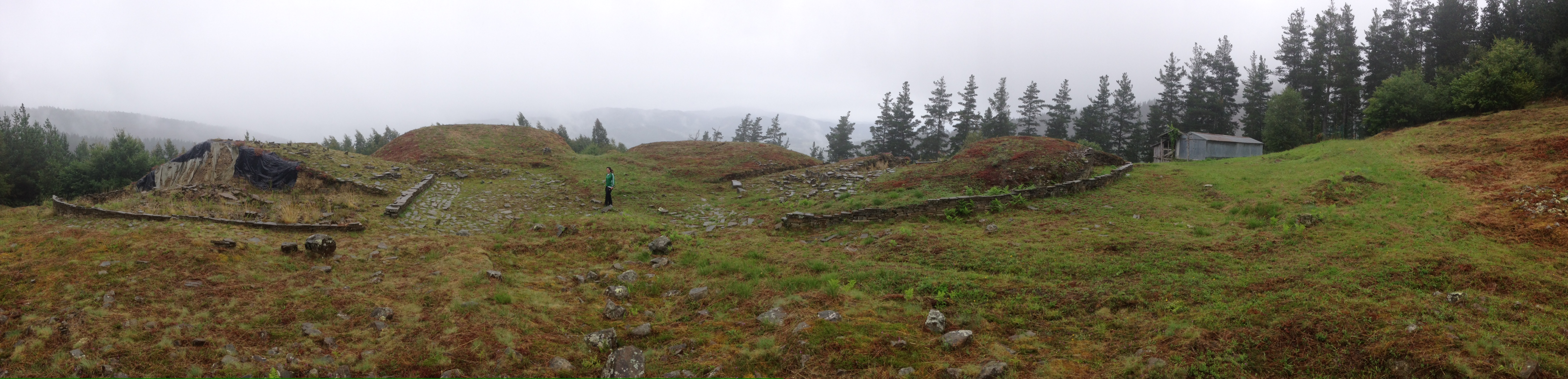 Panoramic view of the Iron age site of Gastiburu, in Vizcay. it is though to be a sanctuary and a public assembly place.